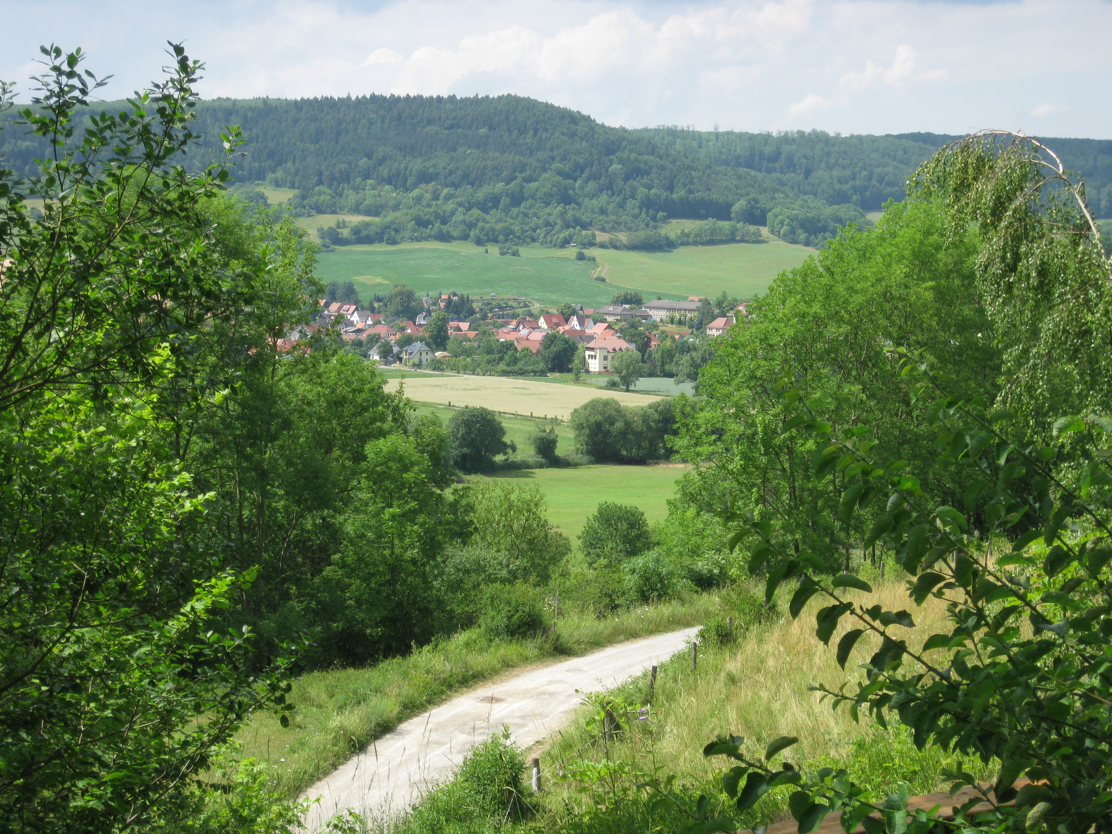 Großbartloff in Westerwald